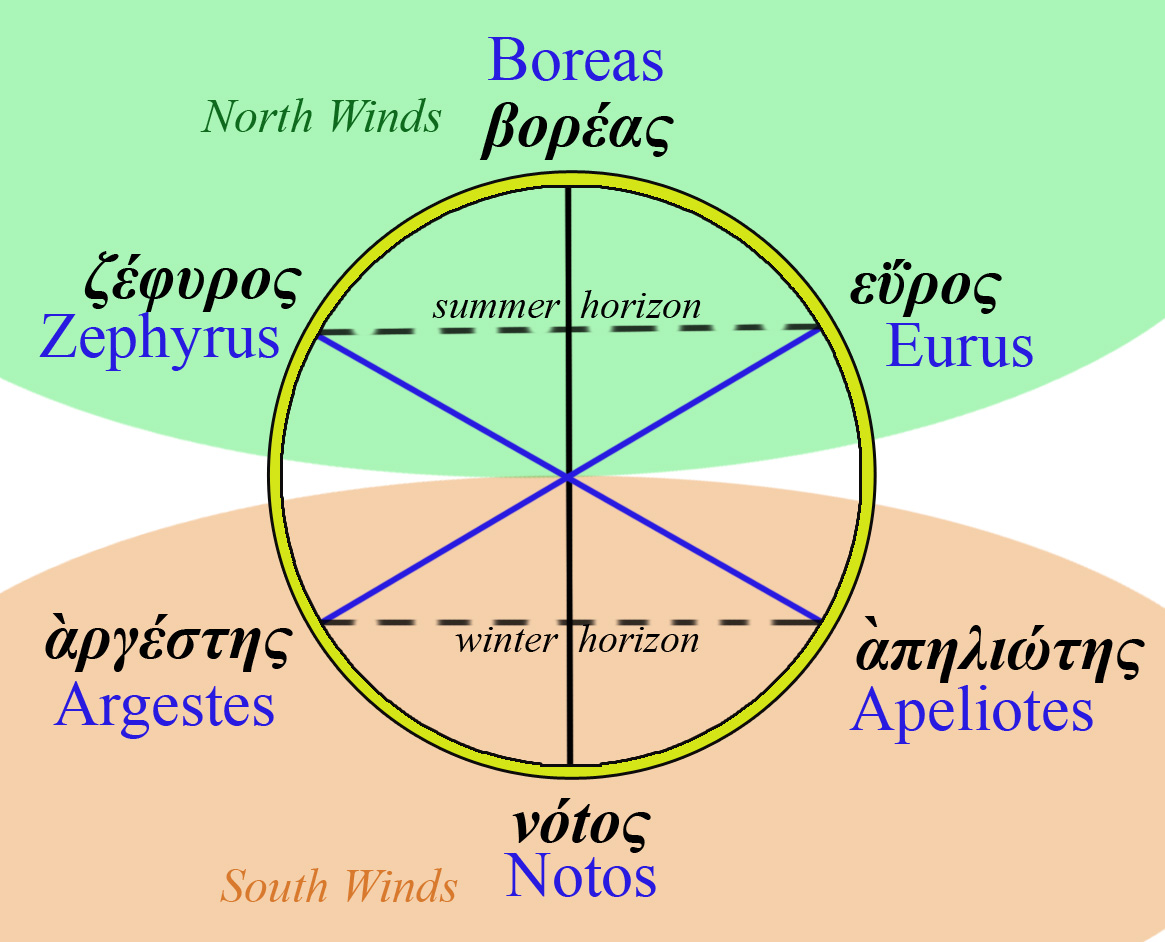 Depiction of the wind rose implied by Greek poet Homer. This interpretation of the Homeric winds is due to Strabo (who quotes Posidonius).